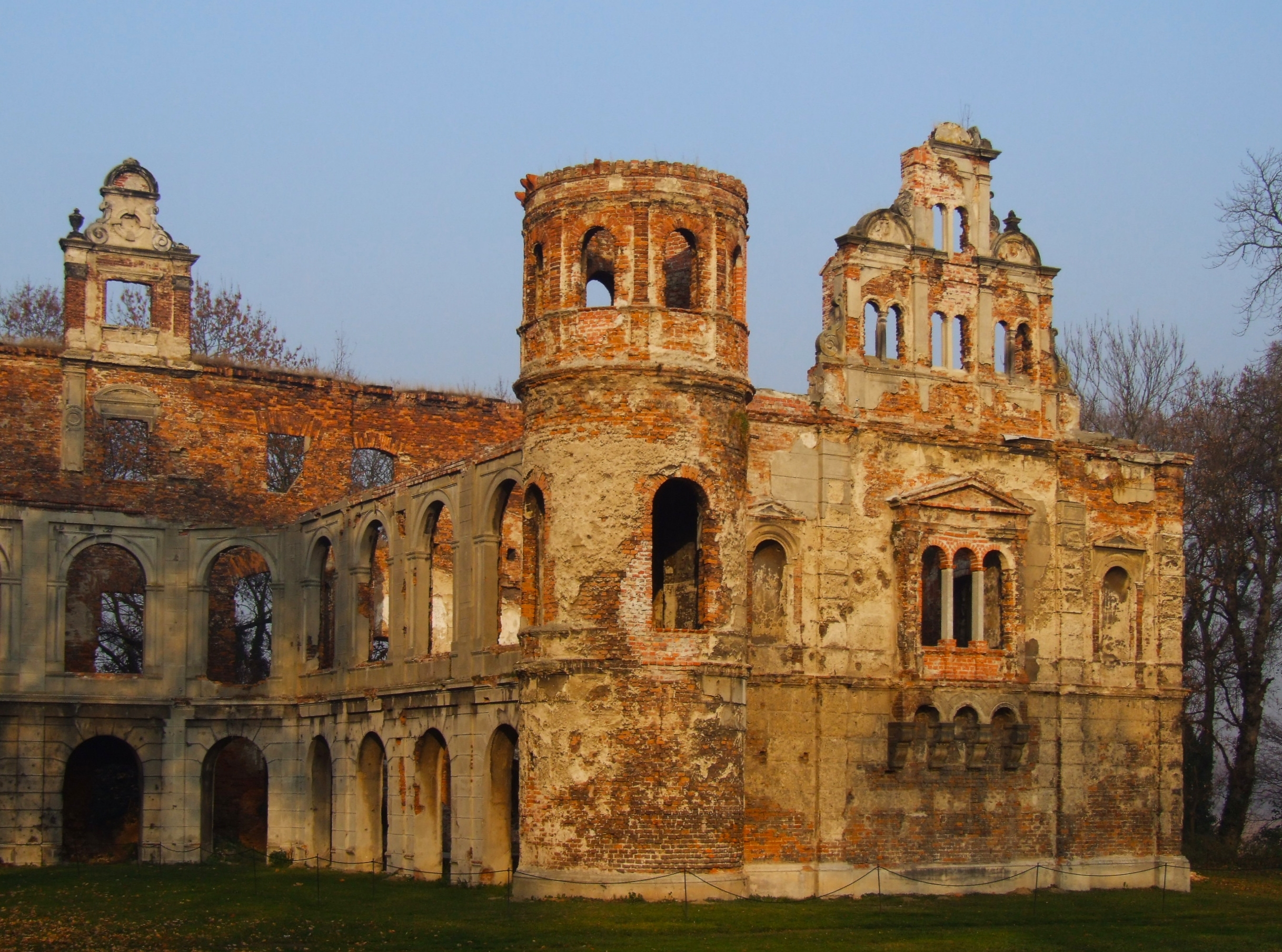 Ruins of Tworków/Tworkau castle